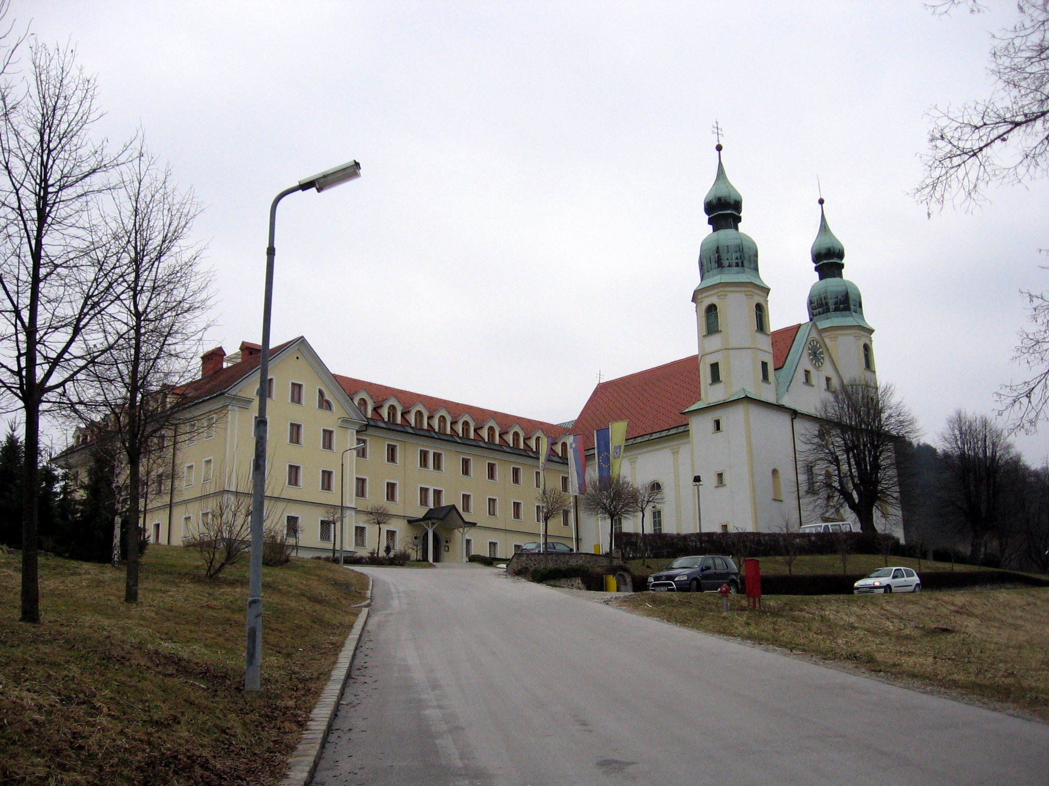 View on Hrib svetega Jožefa over city Celje in Slovenia